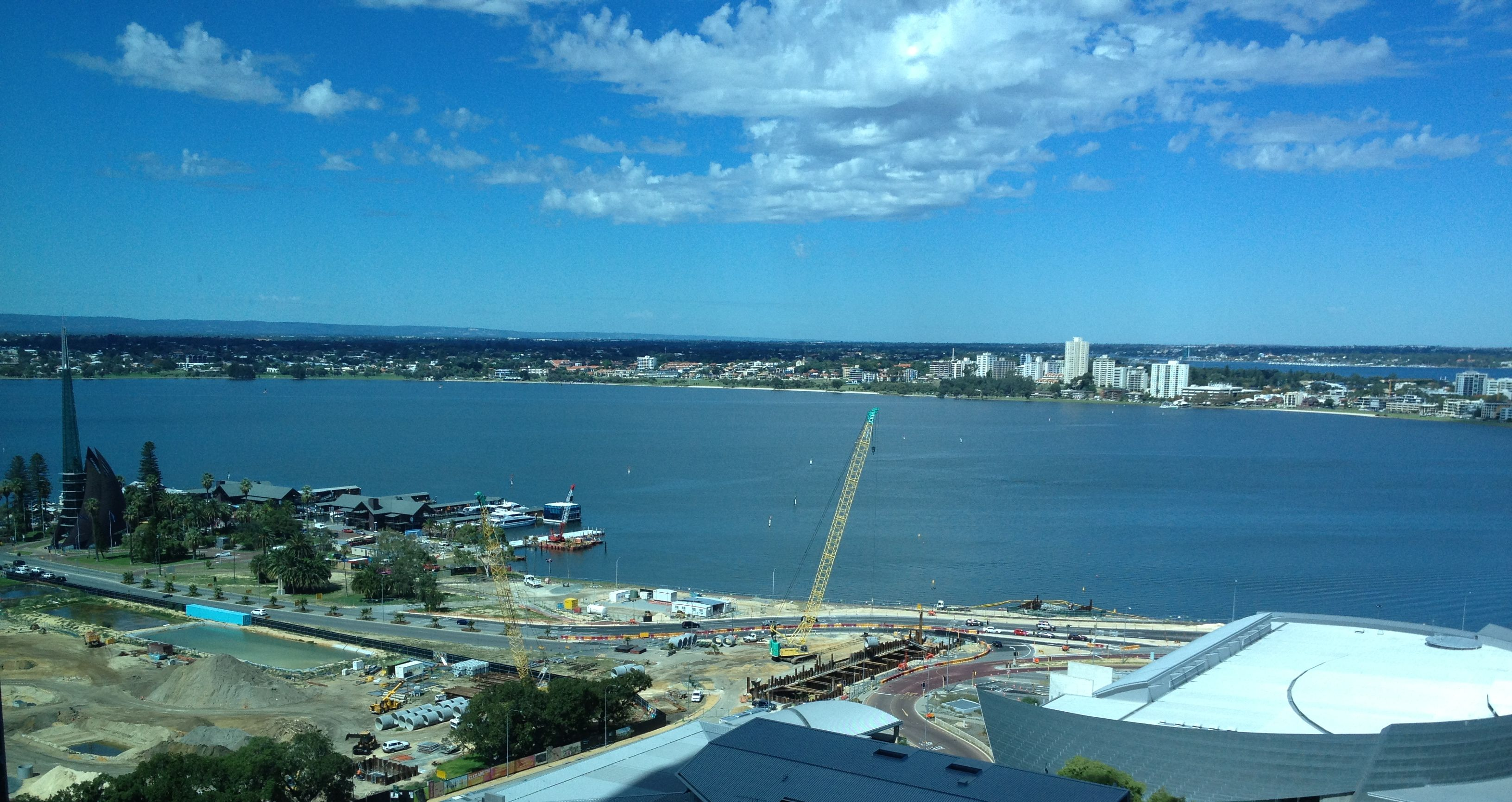 Elizabeth Quay April 2013